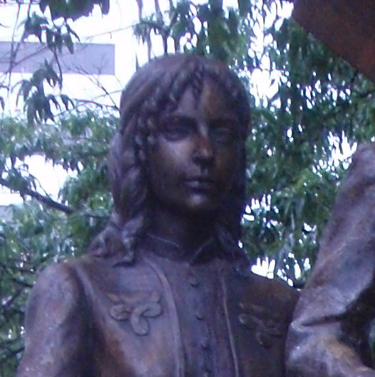 The Tennessee Woman Suffrage Memorial is located at Market Square in downtown Knoxville, Tennessee. It honours Elizabeth Avery Meriwether and 2 others The base of the sculpture features text on the campaign and a quote by Harriot Eaton Stanton Blatch